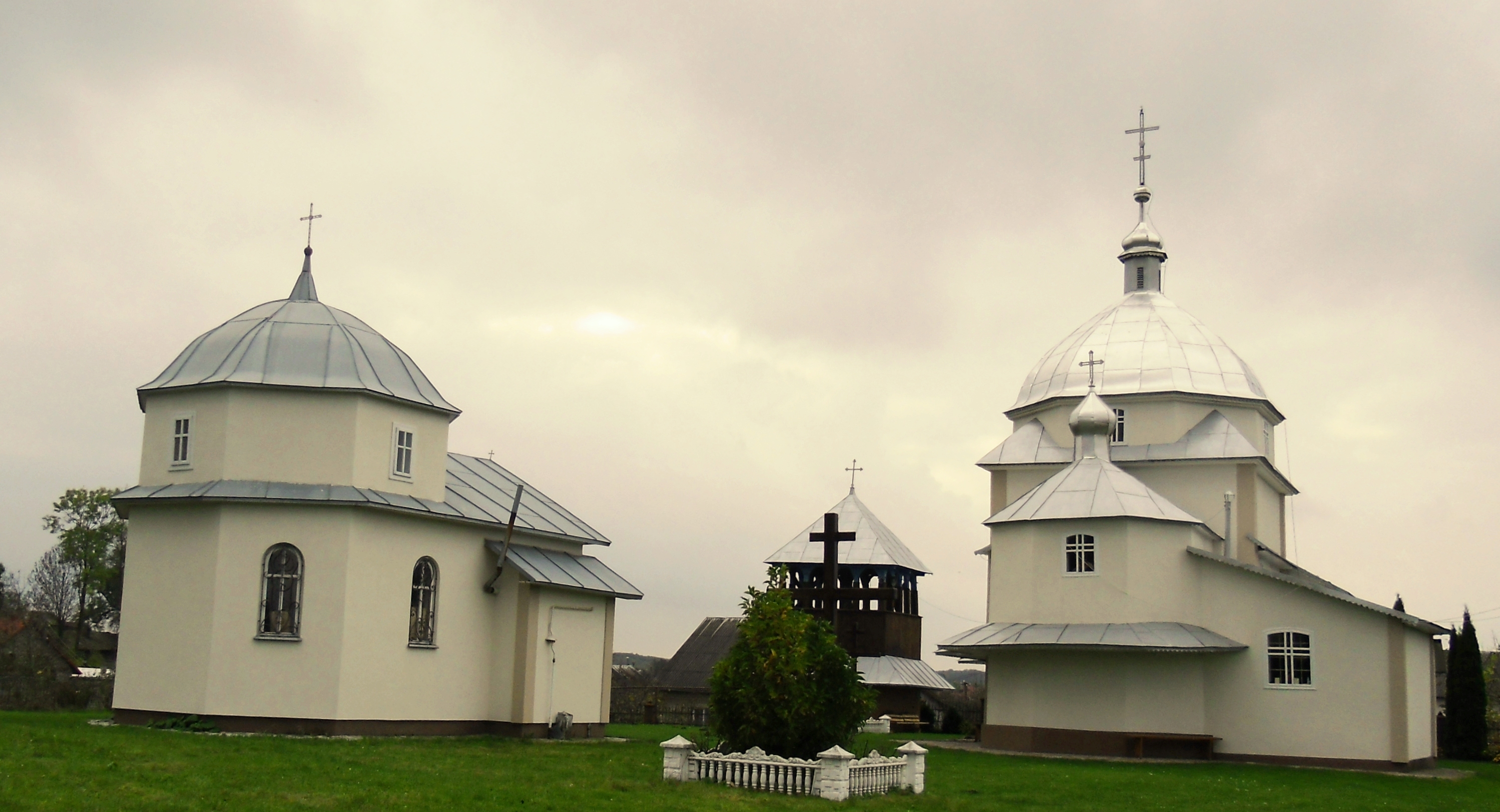 Newly rebuilt church on the place of the Ortodox Church (1654) of the Blessed Virgin Mary (rebuilt in 1741) in the village Prylbychi Yavoriv district (Yavoriv Raion).